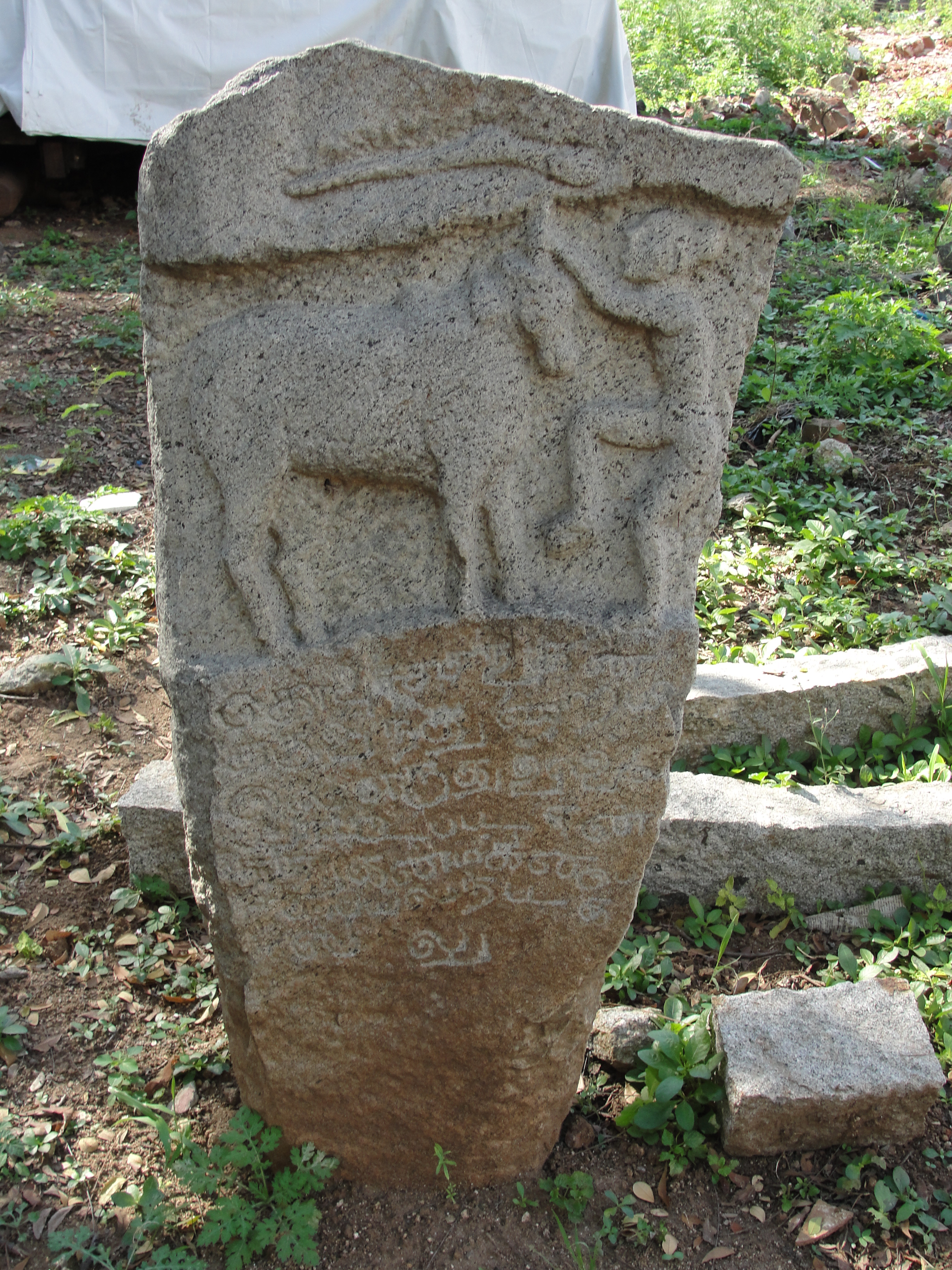 A Bull baiting (Bull-baiting/taming in which the competitors capture fierce bulls let loose on the occasion ) inscription in Salem district museum, Tamil Nadu, India. Place of excavation: Peththa Nayakkan Palaiyam, Attur taluk, Tamil Nadu, India.